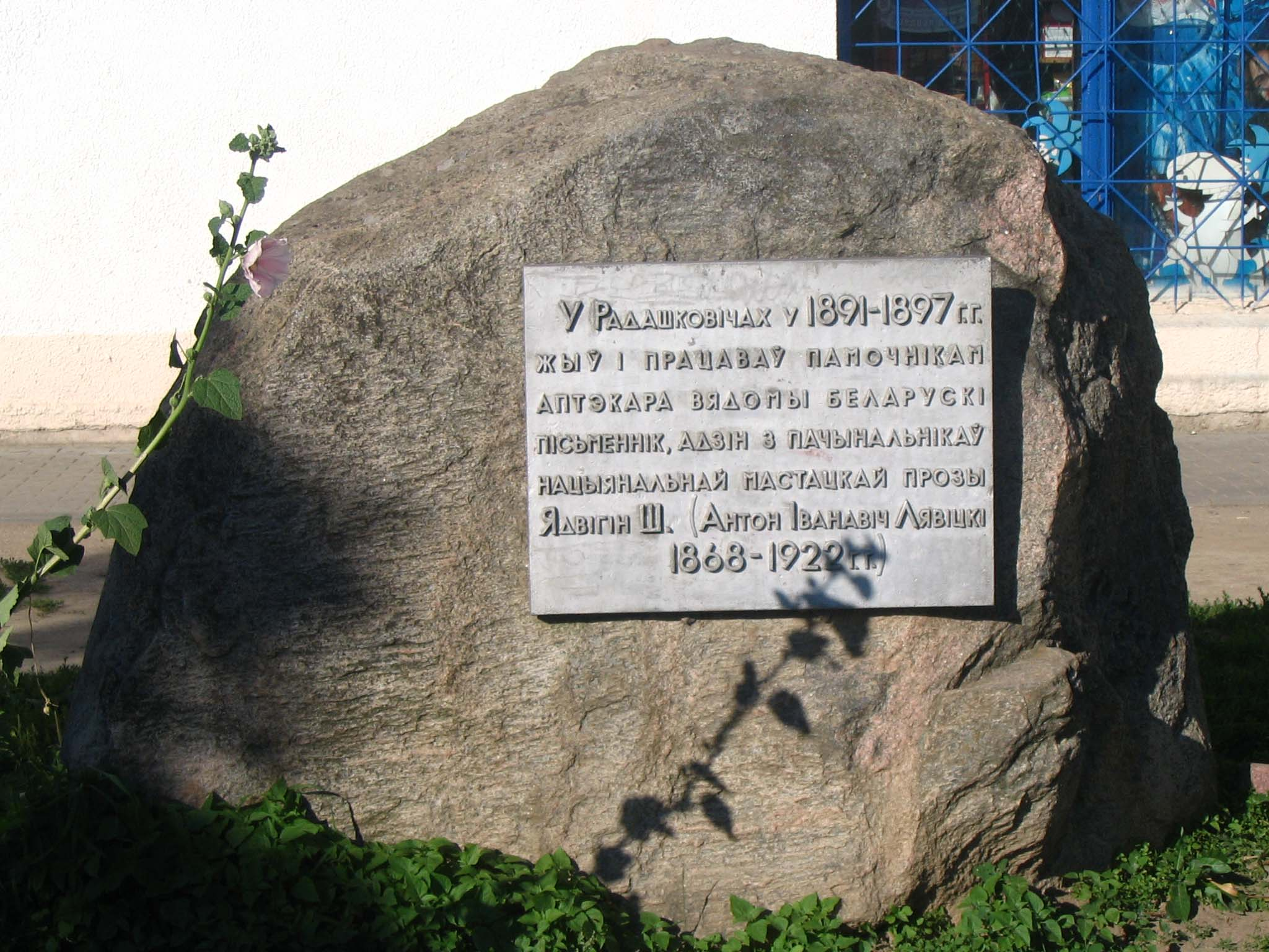 Jadvihin Sh.